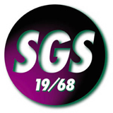 SG Essen-Schönebeck crest, German female football team